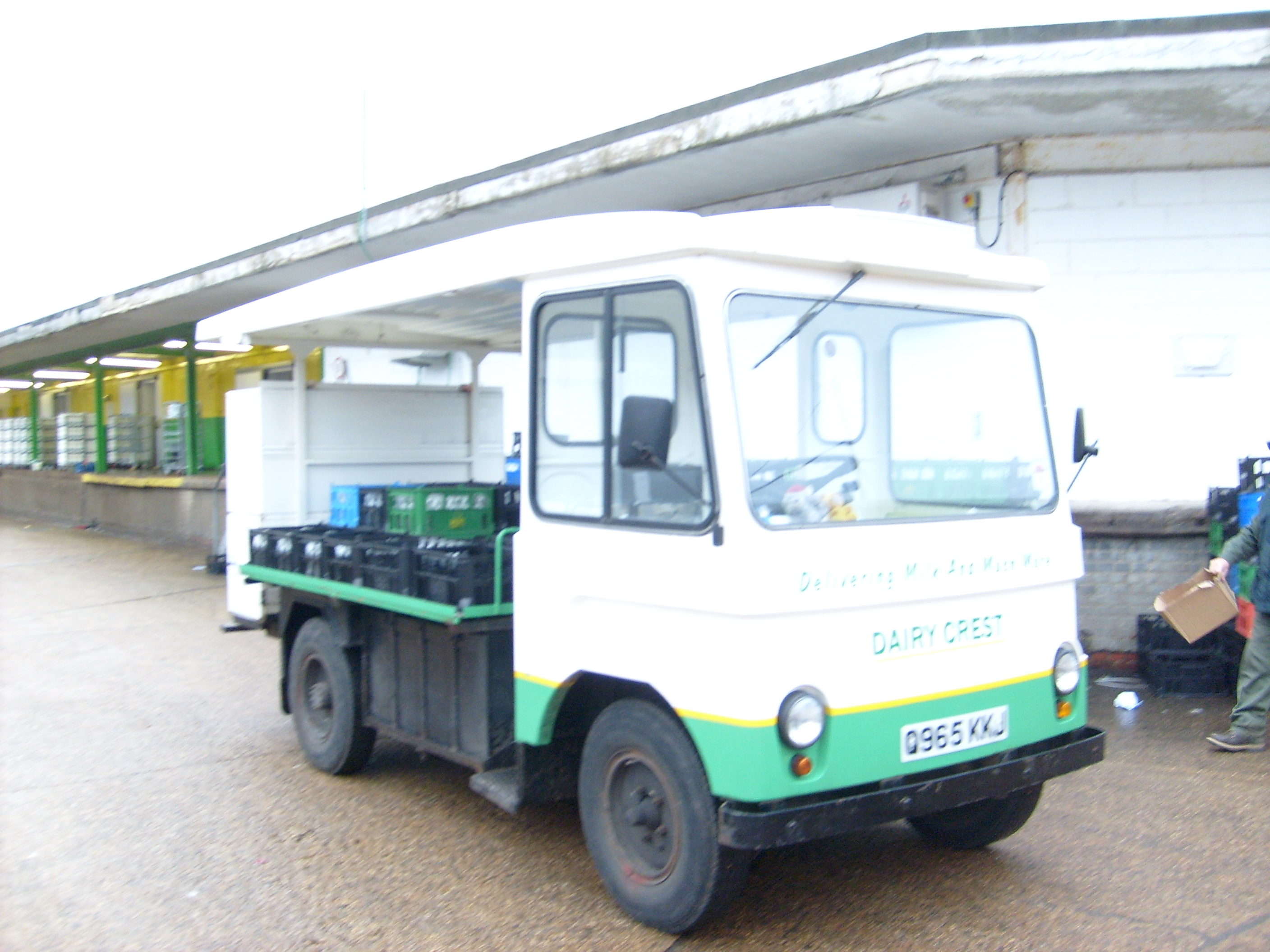 A Dairy Crest Smith's Elizabethan milk float. A Dairy Crest Smiths Elizabethan electric Milk float for use of delivering fresh milk to peoples doorsteps. A Dairy Crest Smiths Milk Float.